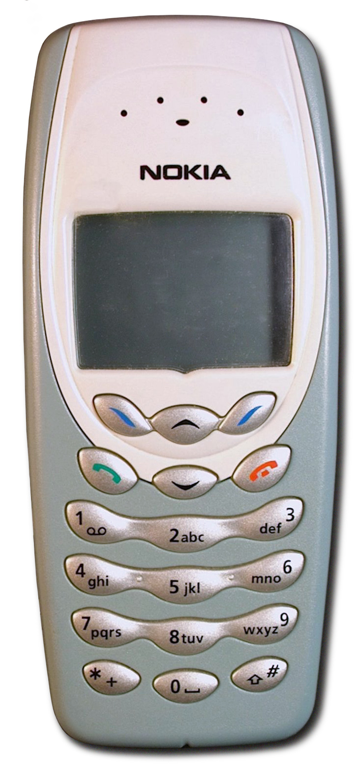 Nokia 3410 mobile phone